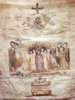 Banner of Macedonians in the Greek War for Independence